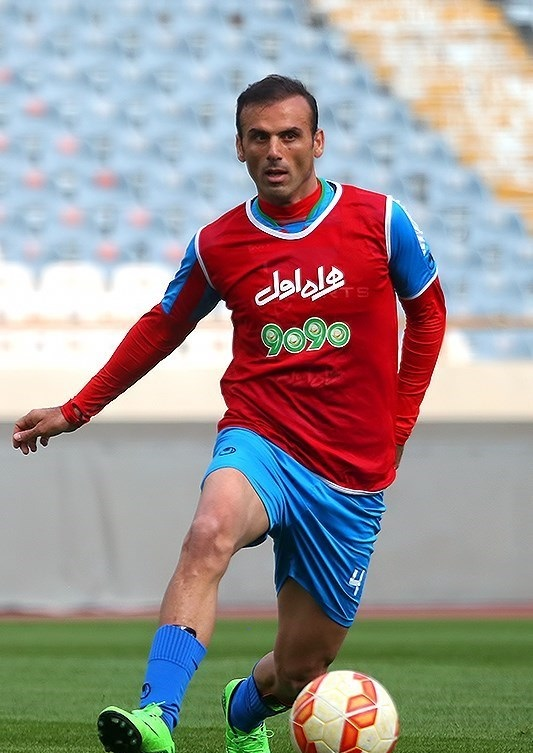 Jalal Hosseini, Iranian national football team player in training before India match